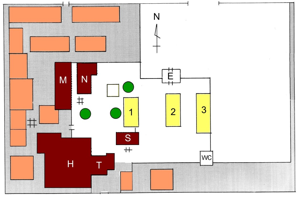 Layout of Kumaya Museum, Hagi